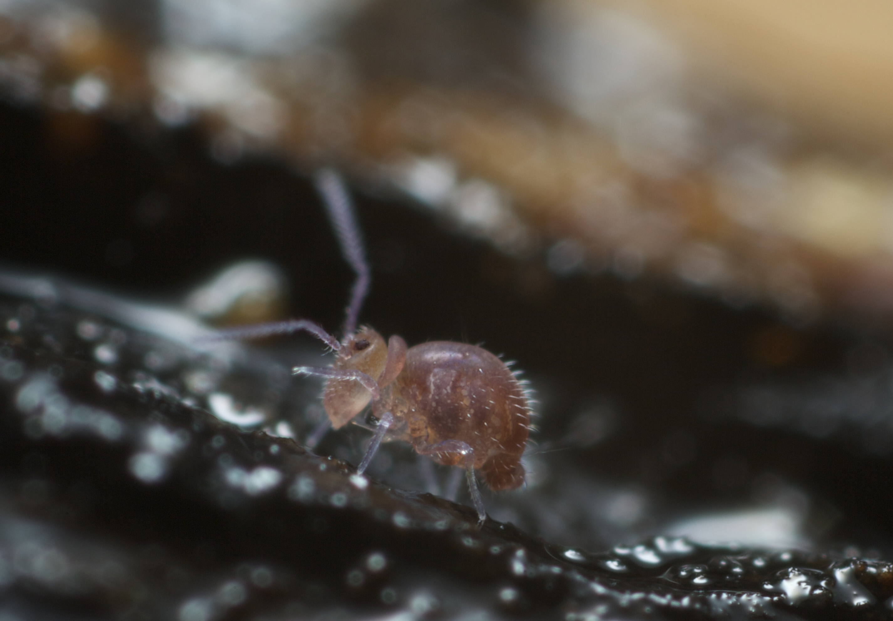 Adelphoderia sp. Original description on Flickr: This beautiful springtail is an Adelphoderia species. I found it in a cave somewhere near Nelson, NZ. I don't have a location exactly yet but I'll geotag when I know. This isn't a cave species as far as I can tell as there's little sign of adaption to a dark environment. I'm going caving again on Saturday so it'll be interesting to see if they're in those caves too. This is a member of a very small group of springtails that have a neck organ, looking a little like a neck brace, that probably aids in respiration. In NZ caves, and the Southern hemisphere in general, cave springtails don't seem to be based on Arrhopolites species as it can be in the Northern hemisphere, and so far, none have been recorded in NZ caves. So it's going to be interesting to spend a few days checking them out and seeing what I can find. I've already seen cave wetas, cave spiders and glow-worms.